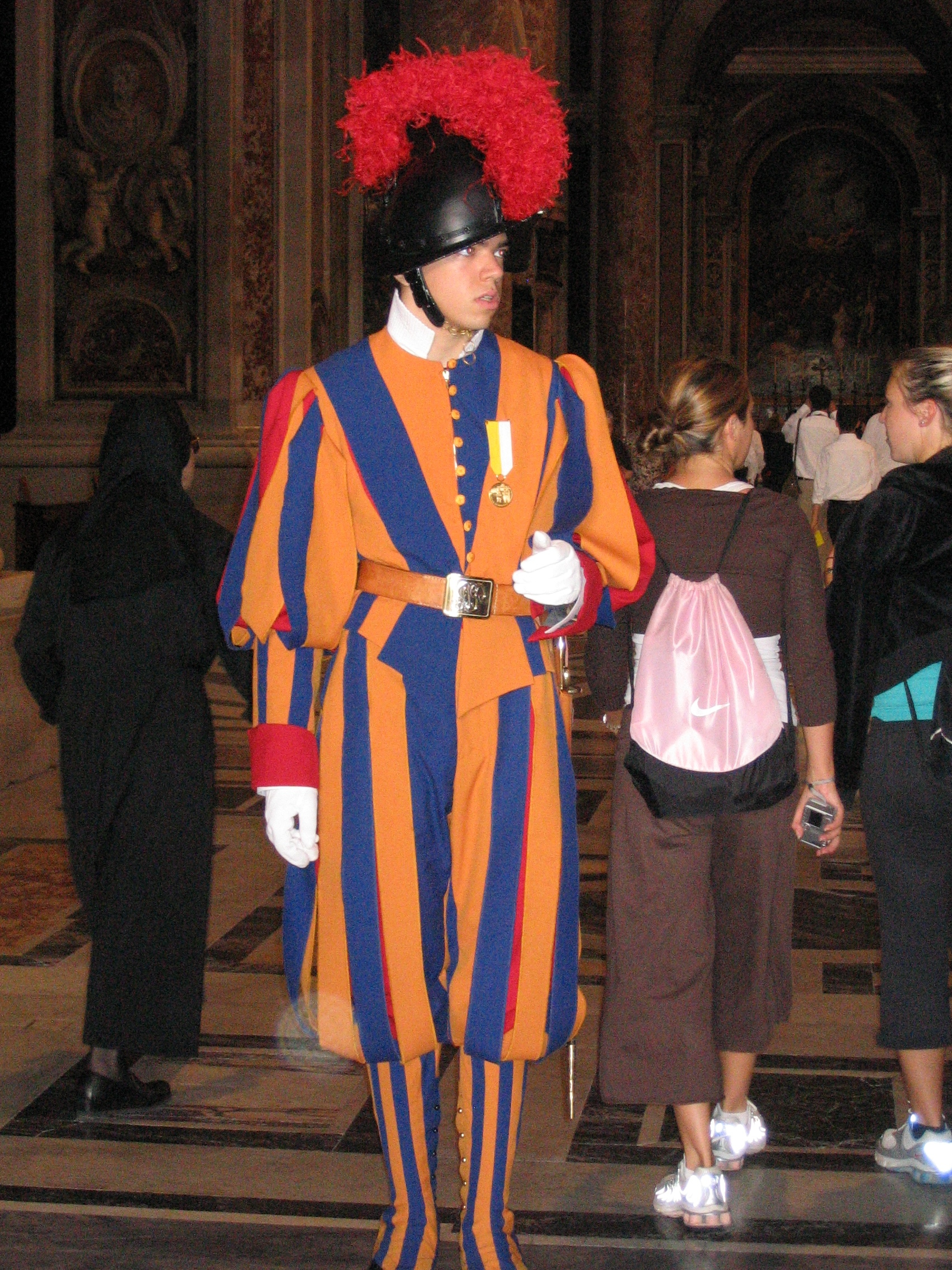 a Swiss guard during a celebration inside St. Peter Dome, 29 june 2006